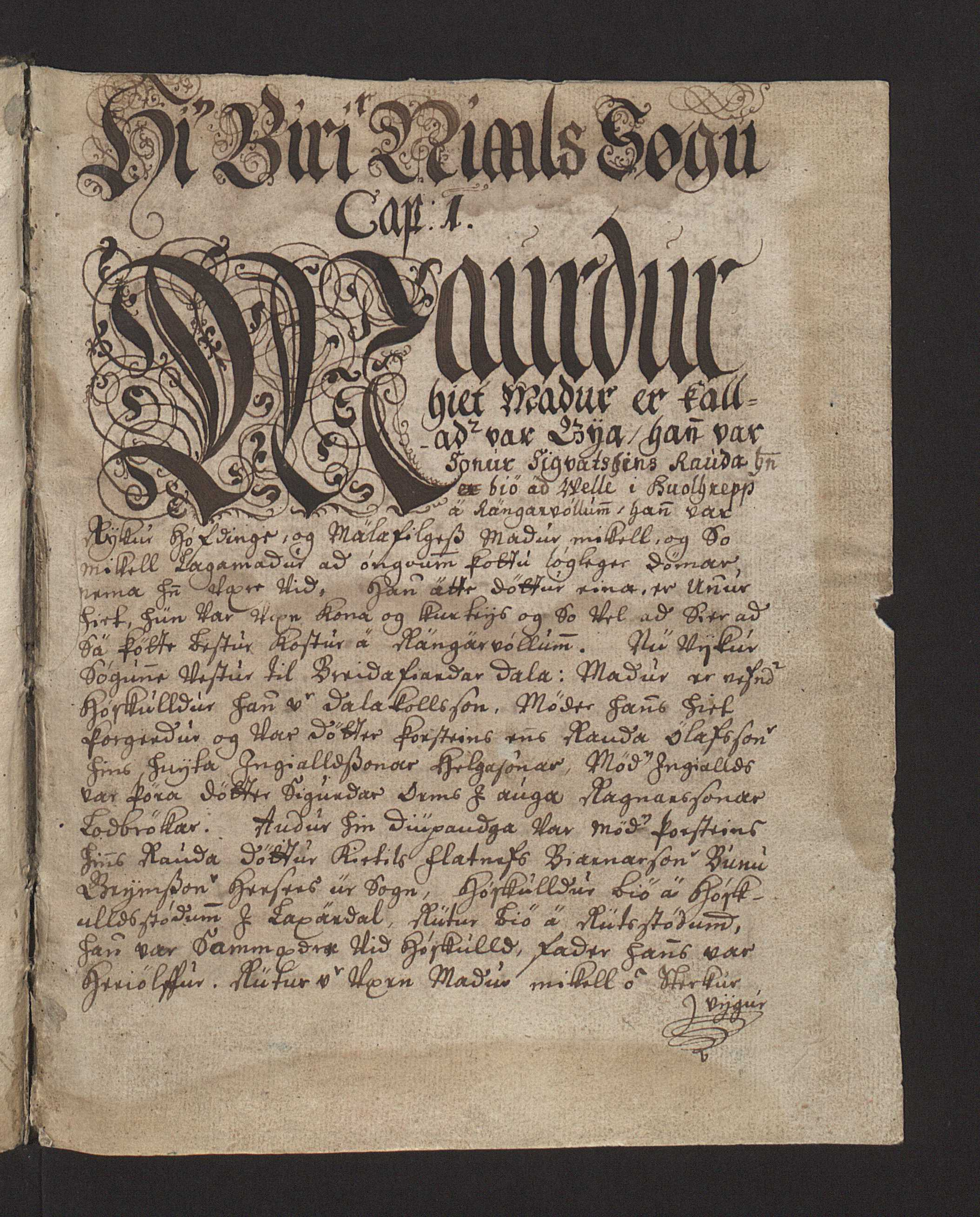 Njál's saga manuscript from Sögubók